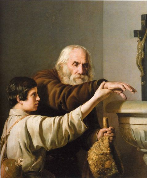 Tadeusz Gorecki - Blind beggar with a boy